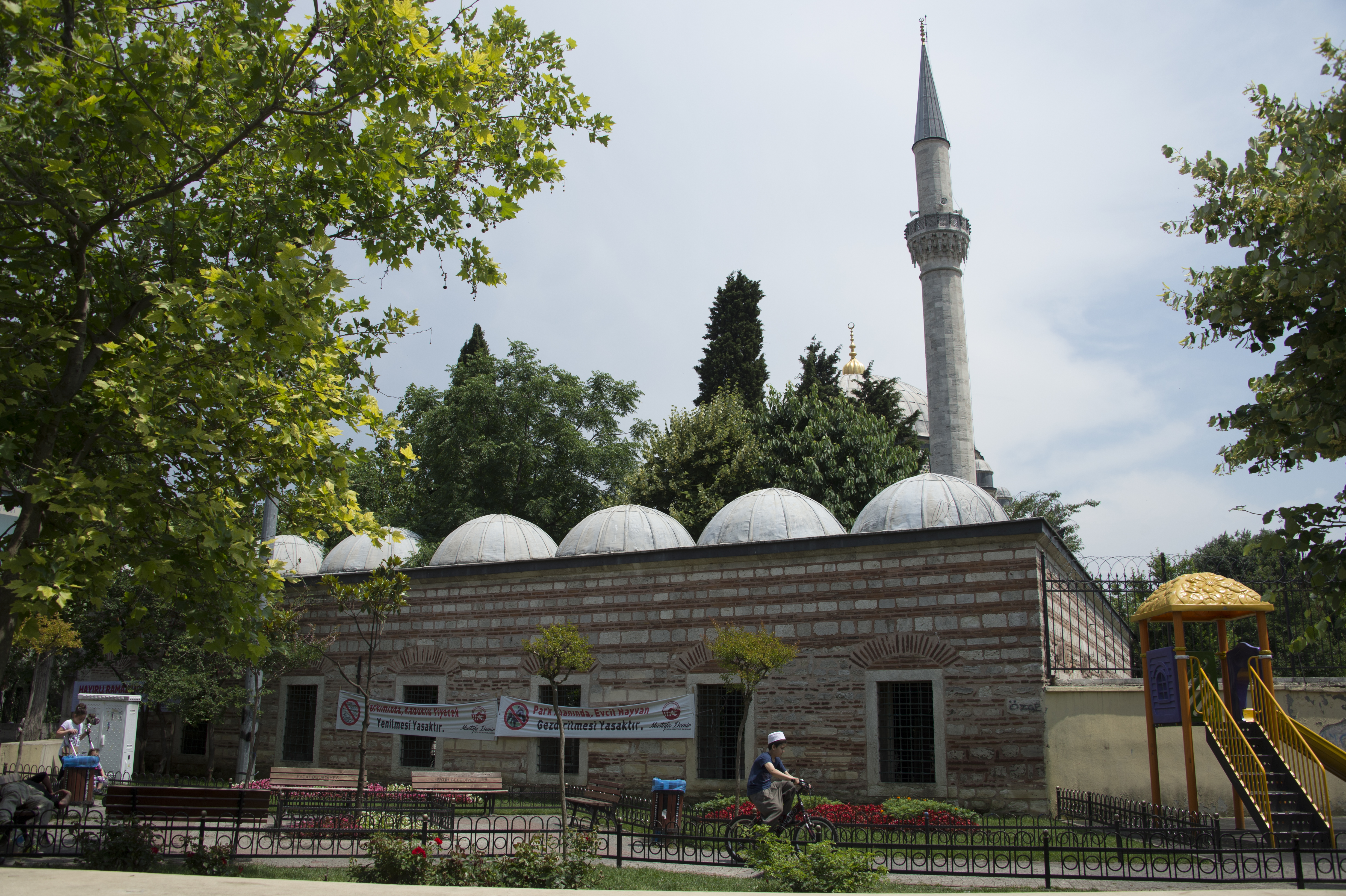 From this side one can see th emosque has 6 domes